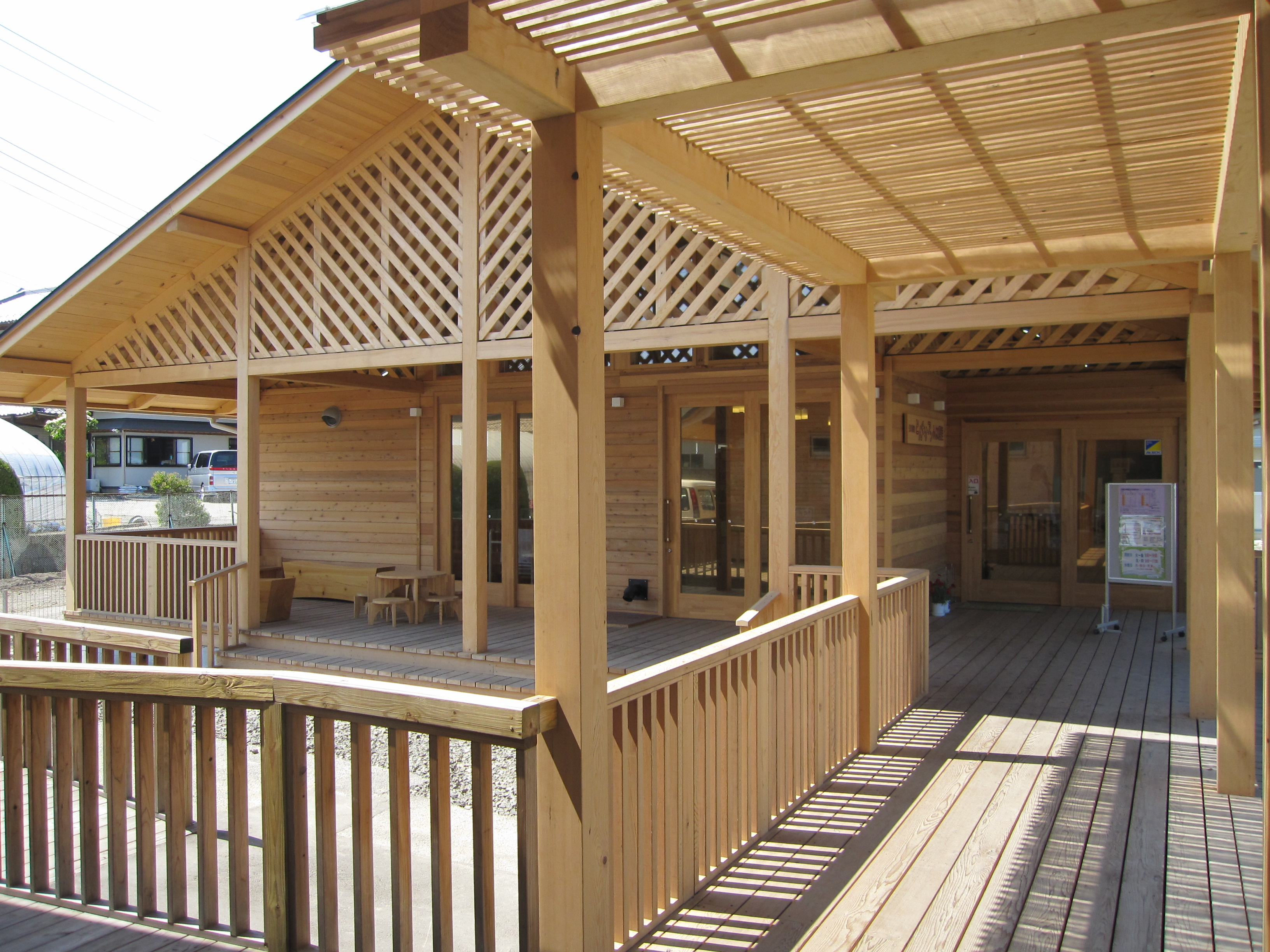 Natori City Library Donguri-an